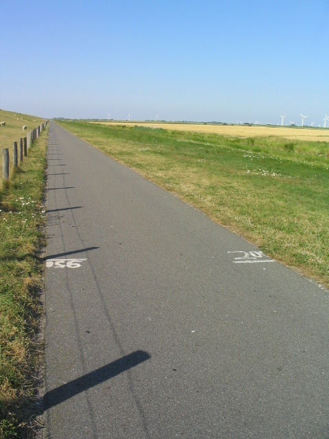 from